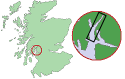 Map showing the location of Loch Long within Scotland.